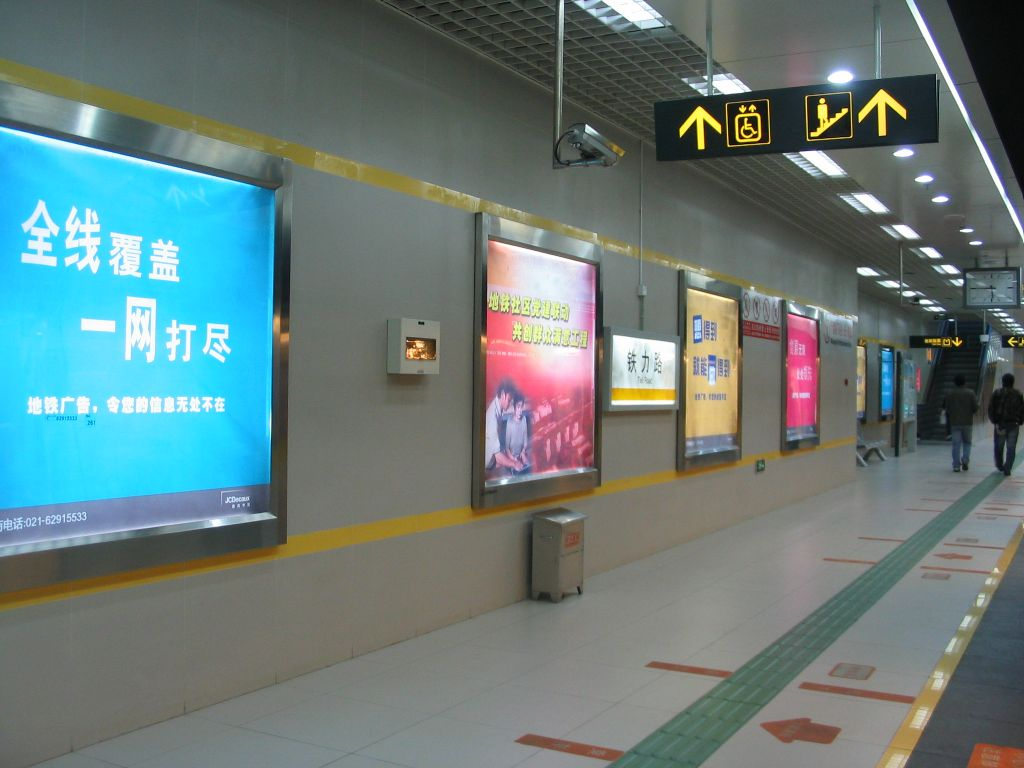 鐵力路站-3號線月台 Line 3 Platform of Tieli Road Station